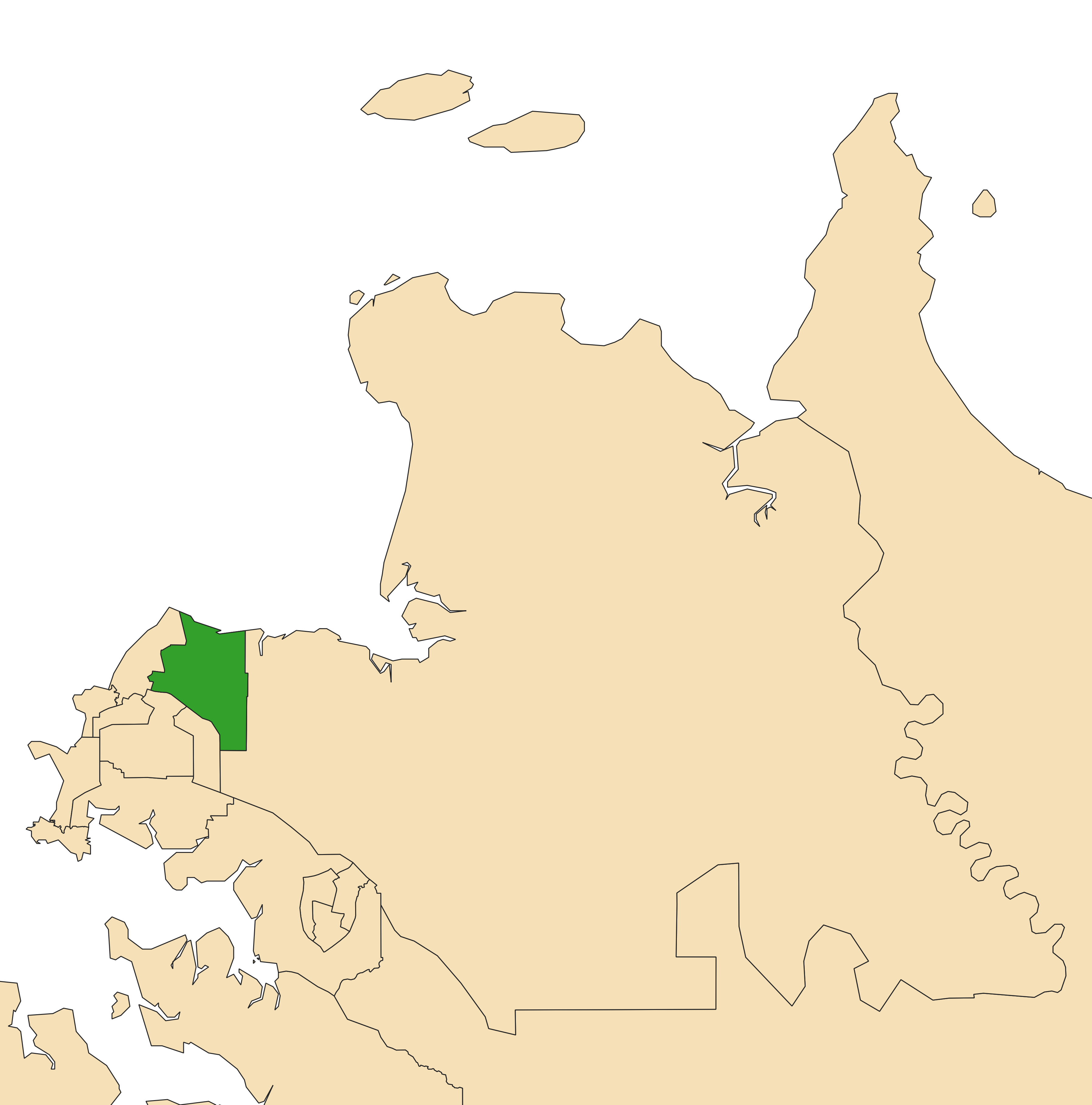 Location of the electoral division of Wanguri (dark green) in the Darwin/Palmerston area of the Northern Territory at the 2020 Northern Territory election